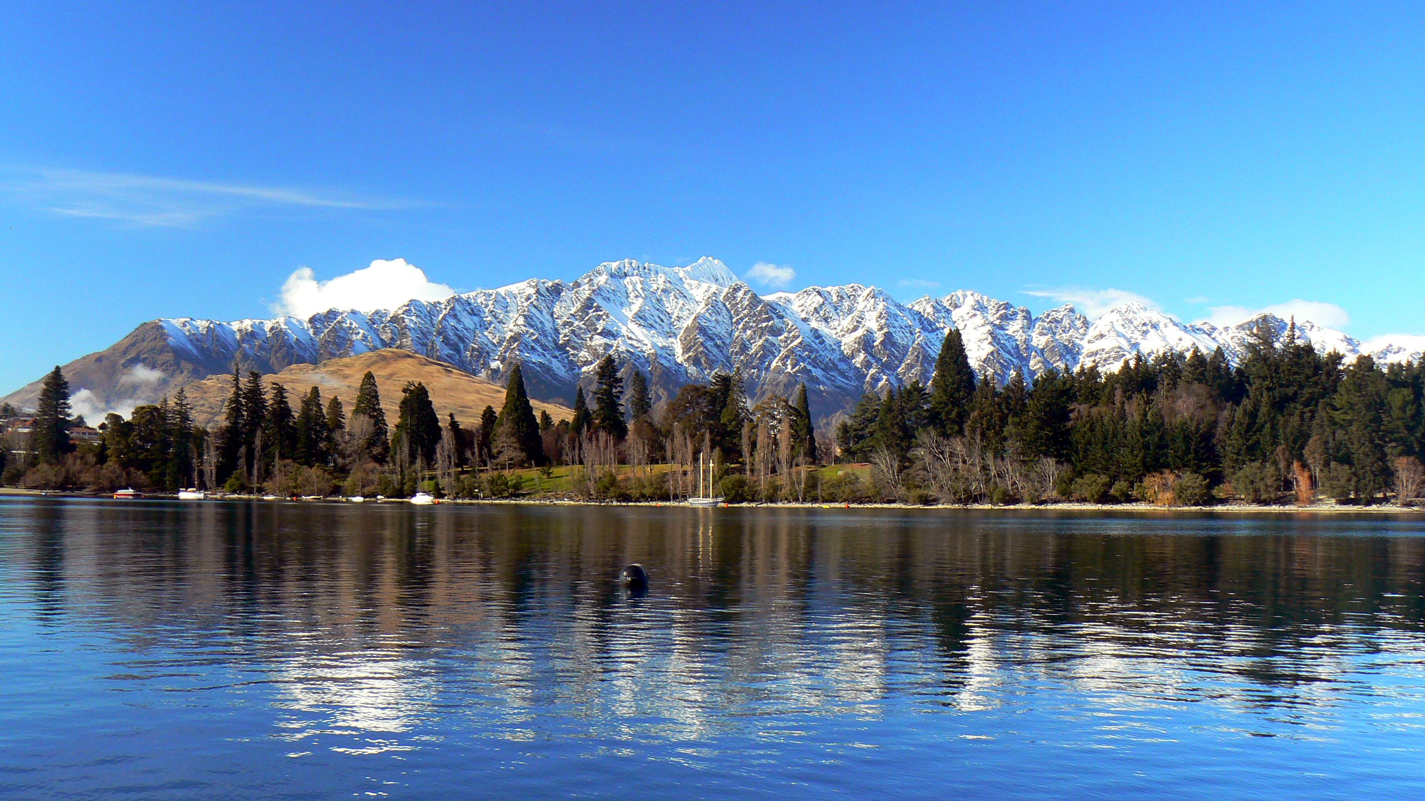 Seen here reflected in the clear waters of Lake Wakatipu